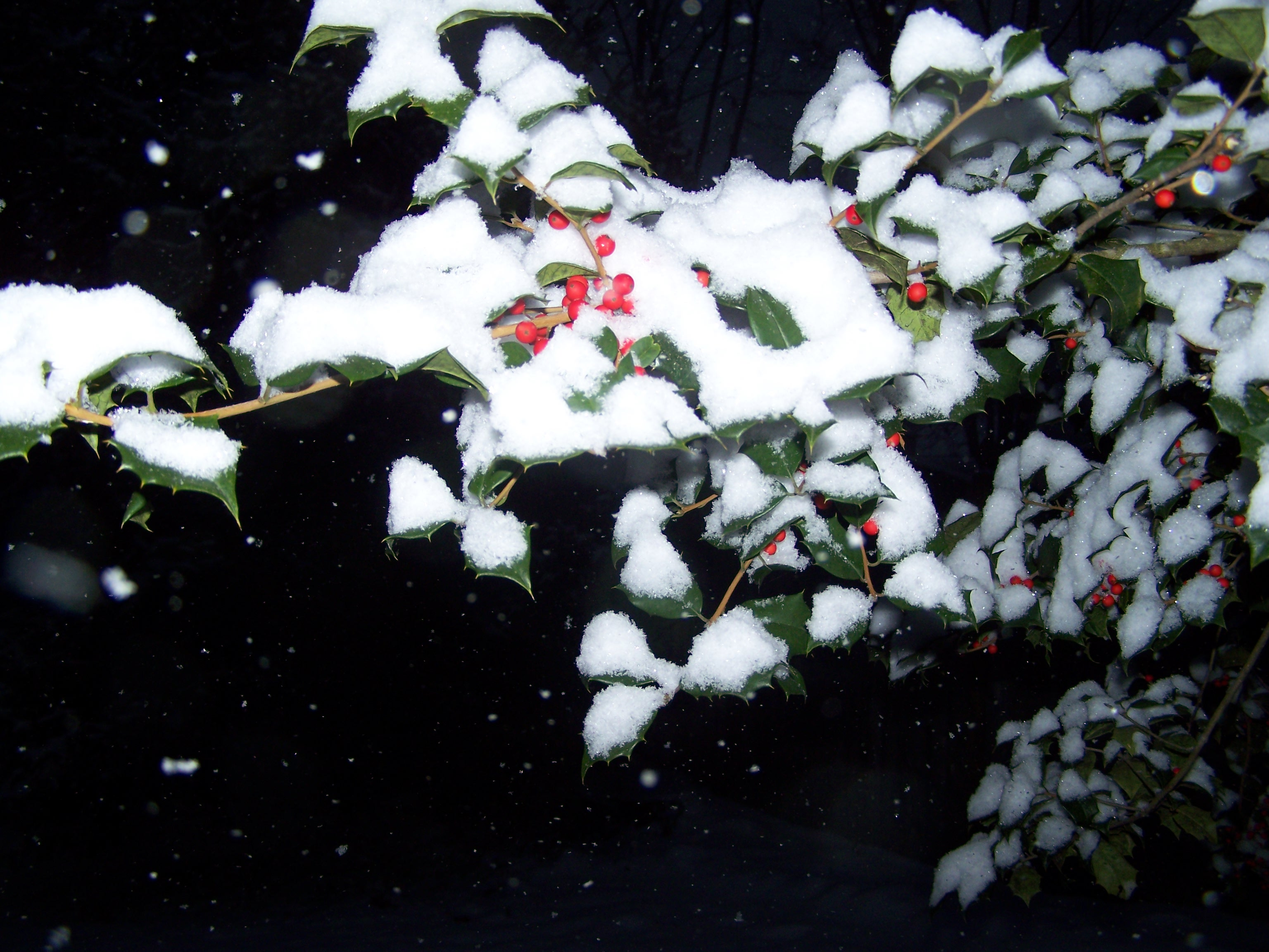 A female American Holly, Ilex opaca, bearing fruit at the beginning of winter